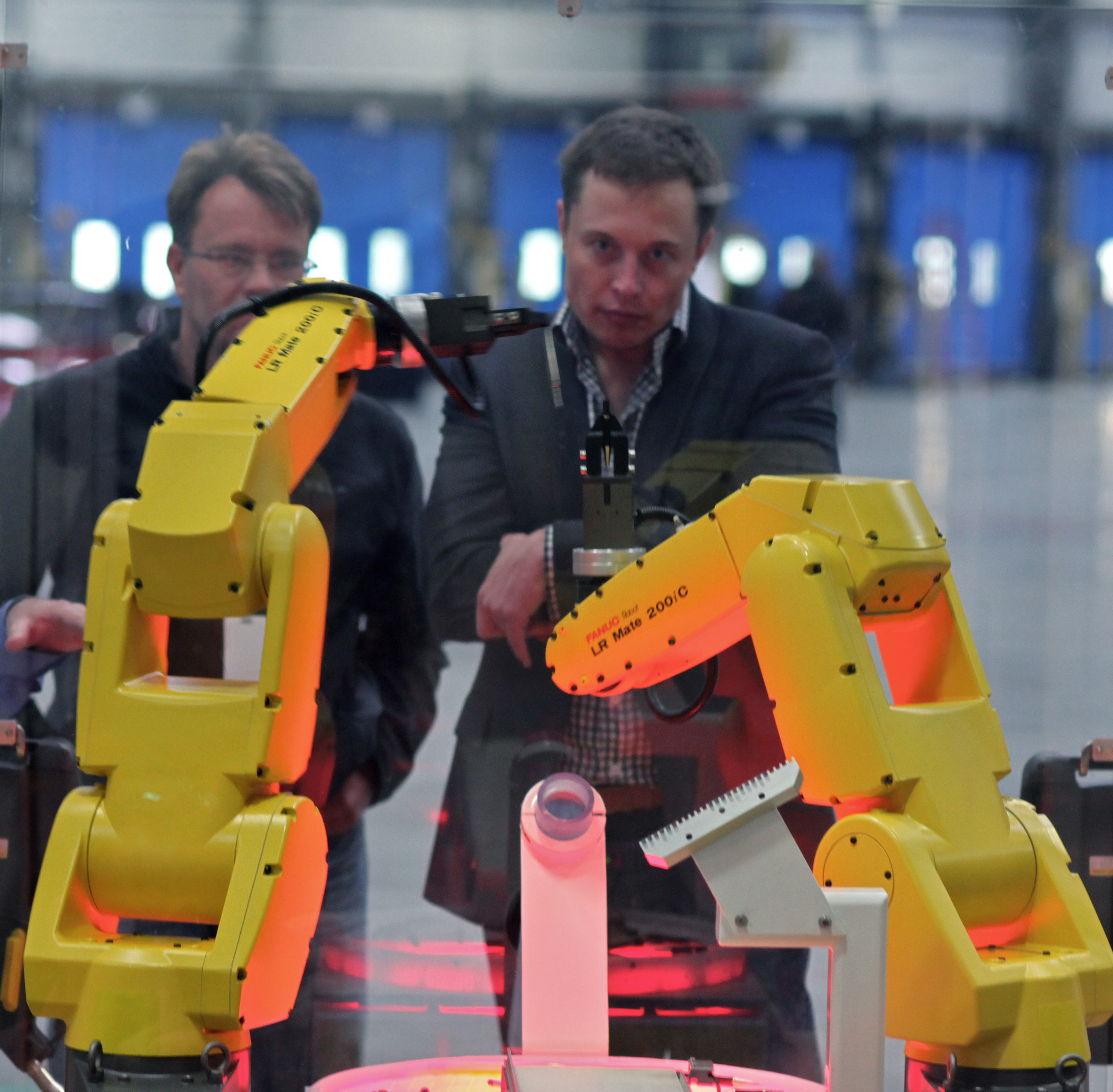 The yellow robot arms dance through an assembly demo for Elon Musk and the rest of the tour group that visited the reopening of the former NUMMI plant, now Tesla Motors.